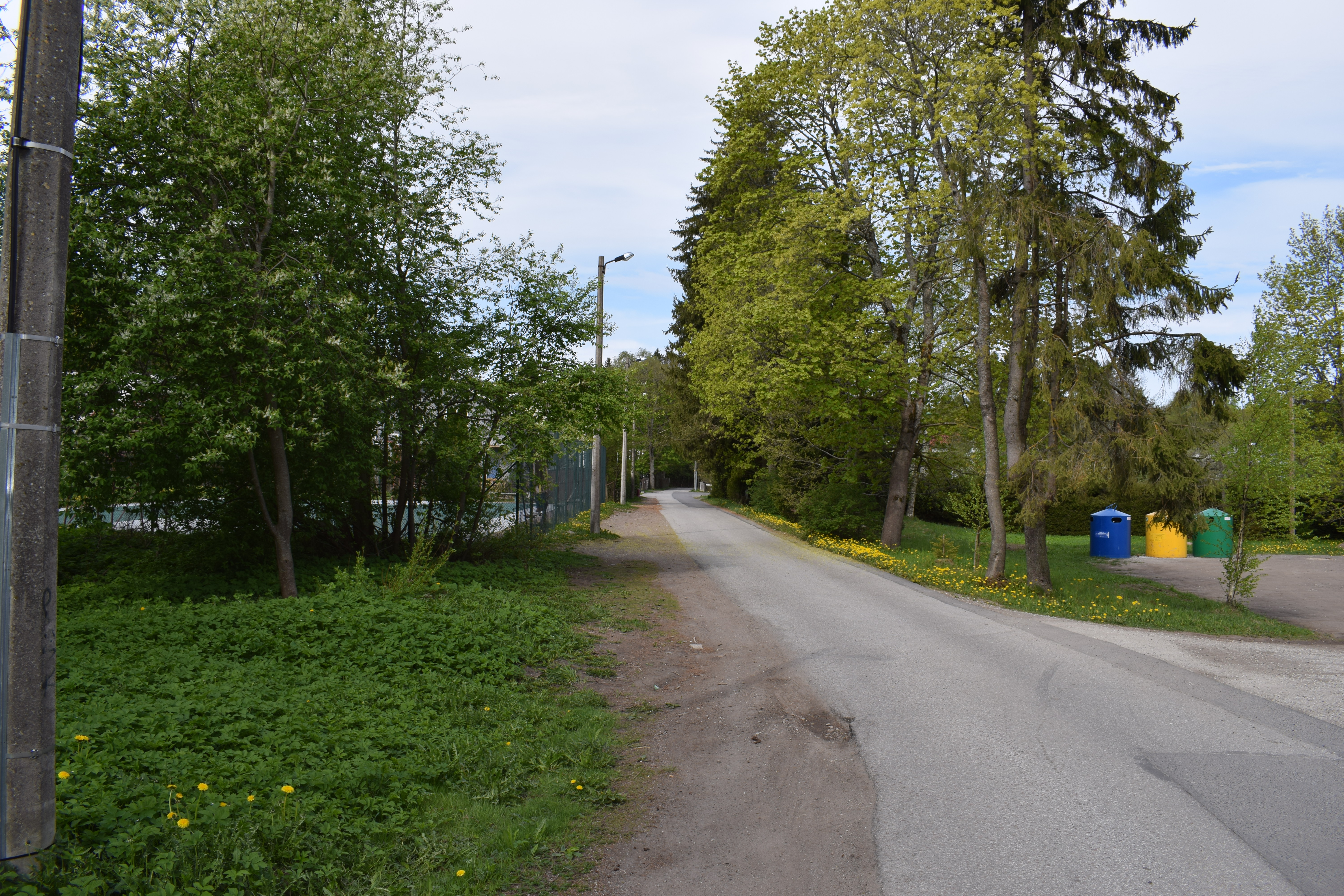 Jõekalda street